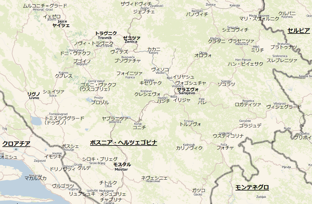 Map of the Central Bosnia and Northern Herzegovina This map may be incomplete, and may contain errors. Don't rely solely on it for navigation.